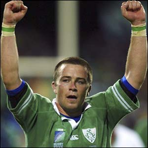 Irish rugby union player Marcus Horan during 2003 RWC